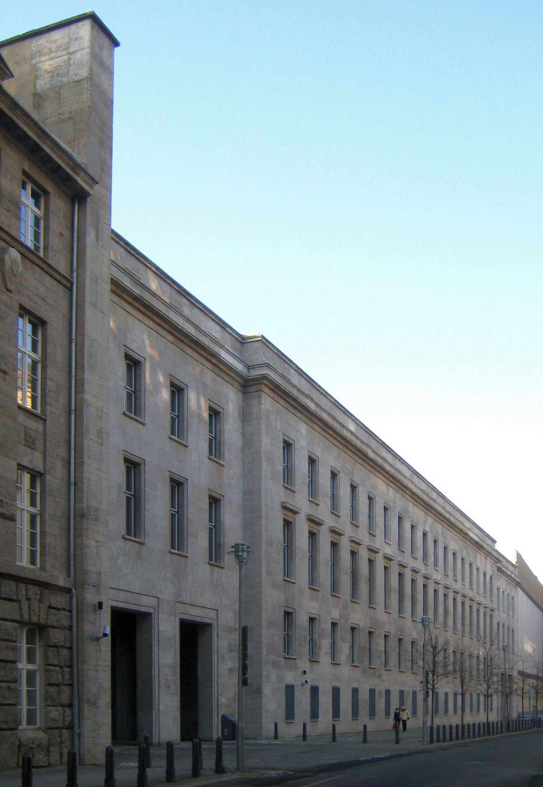 The former Reich Ministry of Public Enlightenment and Propaganda ("Reichsministerium für Volksaufklärung und Propaganda") on Mauerstraße in Berlin-Mitte. It was built in 1936-1940 by architect Karl Reichle in the Nazi architectural style. The original outlook is pretty much preserved except for the giant stone eagle by sculptor Willy Meller which stood on the side pillar on the left. The building is now seat of the Federal Ministry of Labour and Social Affairs ("Bundesministerium für Arbeit und Soziales").